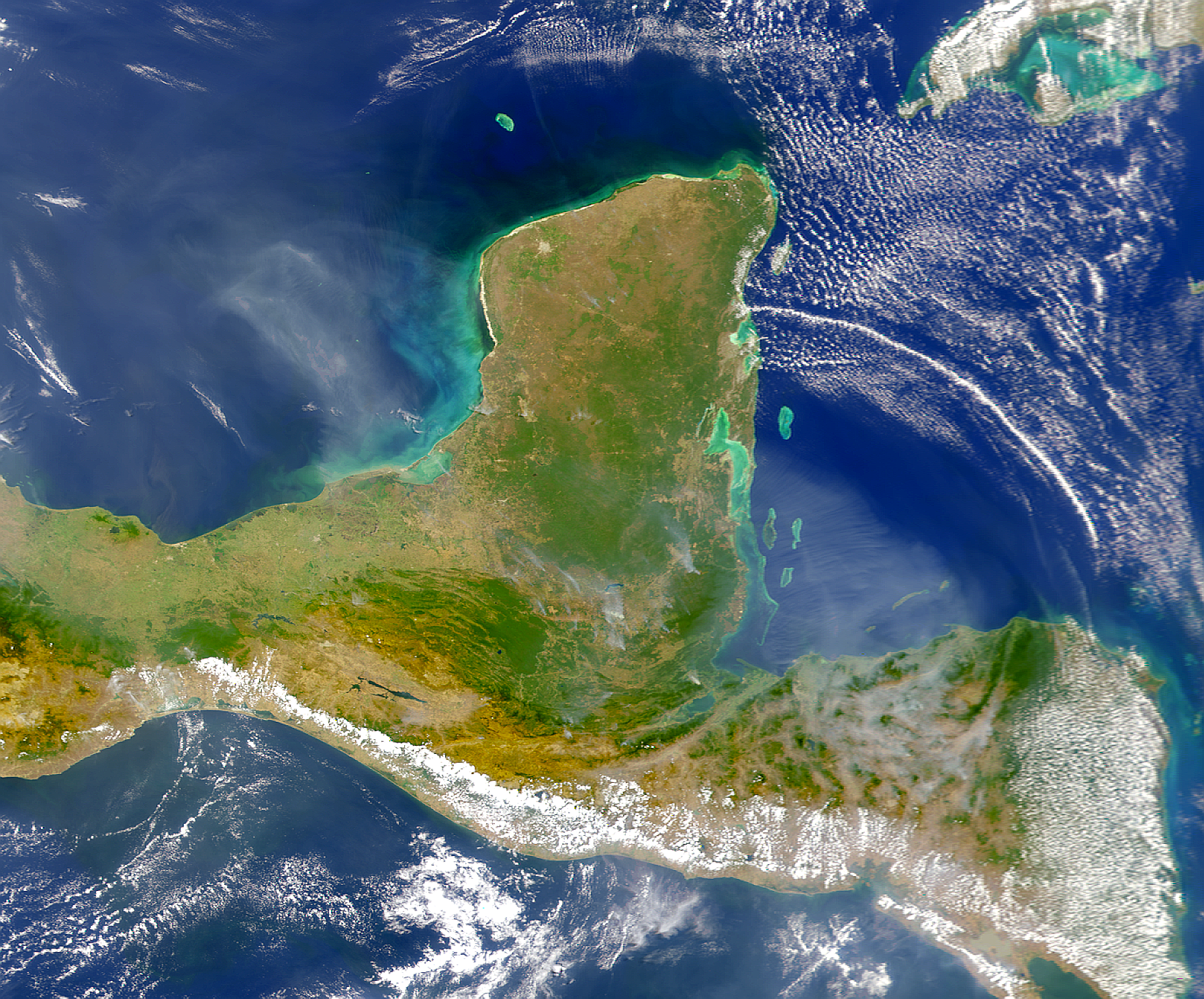 This SeaWiFS image of Central America shows what looks like smoke coming from Mexico, Guatemala, Belize, and Honduras. The smoke can be seen drifting over the Campeche Bank and over Belize's barrier reef. Credit Provided by the SeaWiFS Project, NASA/Goddard Space Flight Center, and ORBIMAGE NASA Goddard Space Flight Center is home to the nation's largest organization of combined scientists, engineers and technologists that build spacecraft, instruments and new technology to study the Earth, the sun, our solar system, and the universe. Follow us on Twitter Join us on Facebook